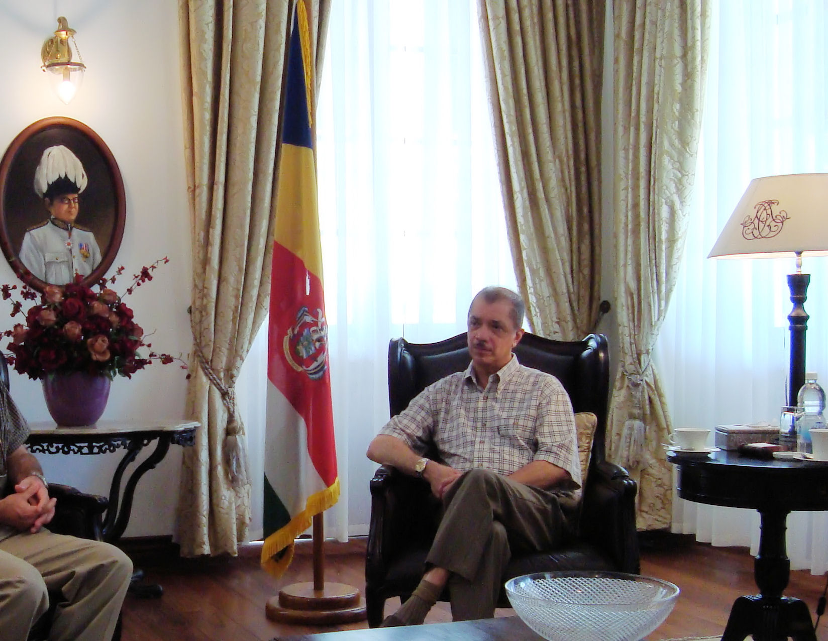 Seychelles President James Michel at a meeting with U.S. officials in a Seychellois government office in Victoria. Seychelles.